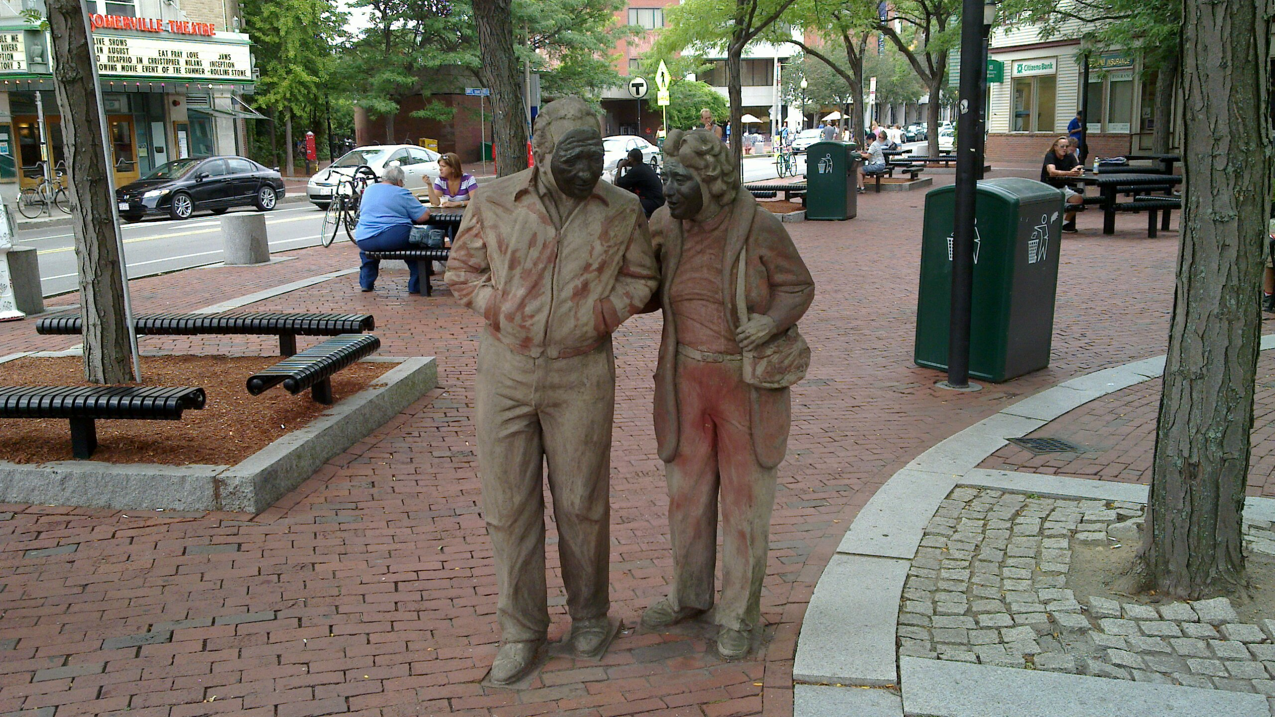 One of the sculptures at Davis Square, Somerville MA.